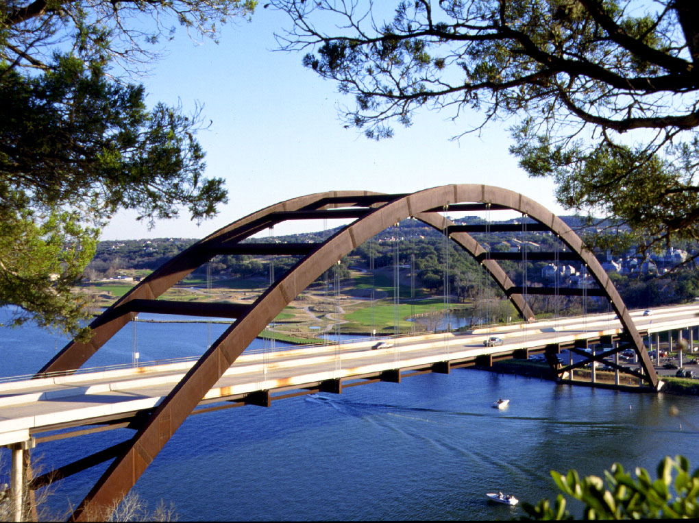 Pennybacker Bridge takes Loop 360 over Lake Austin in Austin Texas